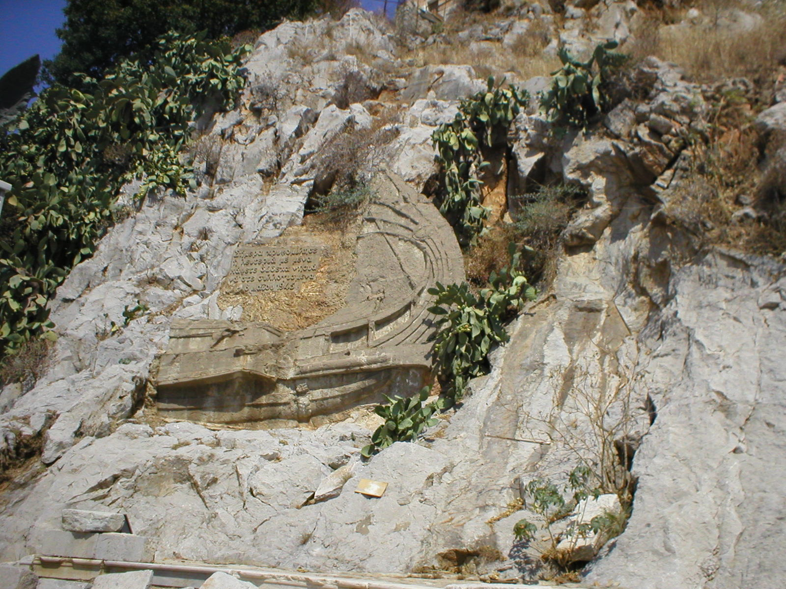 The coat of arms